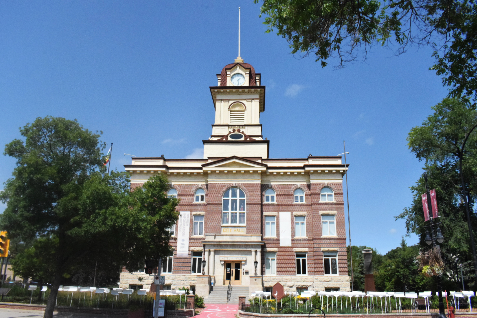 A photo of St. Boniface City Hall in August 2018. This is a historic building in this ward of Winnipeg.